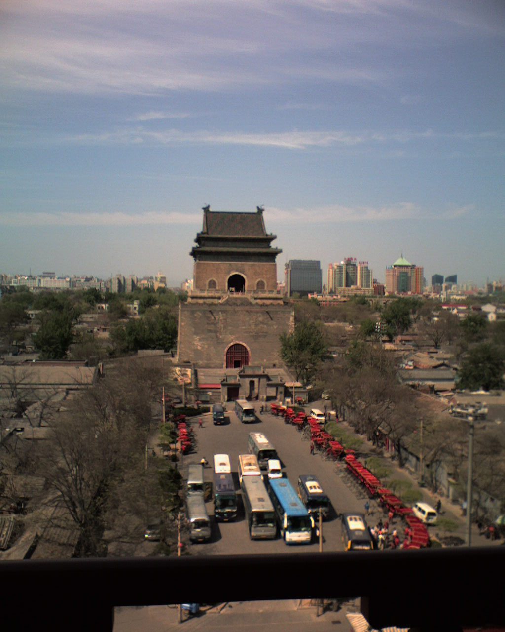 View of Beijing's Bell tower from the Drum tower. Photo taken by David Balch in April 2005.